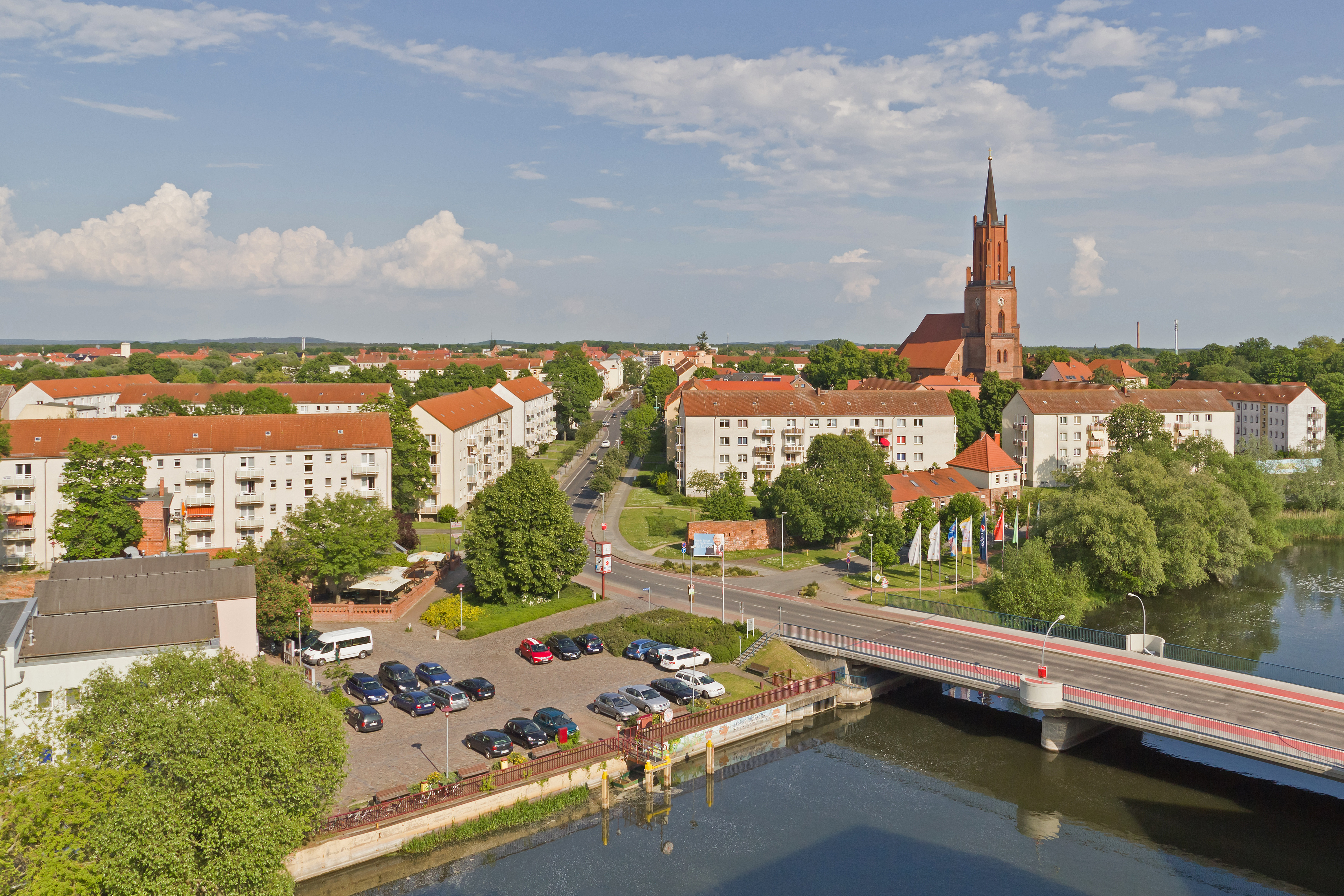 Rathenow, Brandenburg, Germany: view from the balcony of the former warehouse